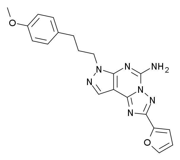 Structure of SCH442416